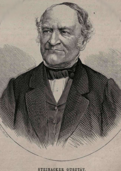 Portrait of Steinacker Gusztáv